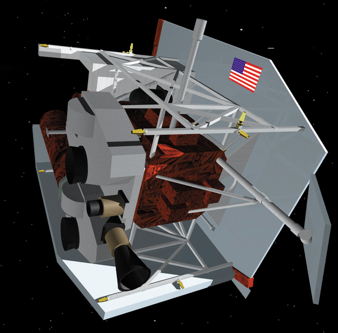 This artist's concept, courtesy of Ball Aerospace and Technologies, Inc., depicts the Deep Impact spacecraft. The mission will send a copper projectile into comet P/Tempel 1, creating a football field-sized crater as deep as a seven-story building. Spacecraft instruments and ground-based observatories will study the icy debris blasted off the comet, as well as the comet's pristine interior material.